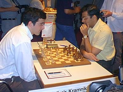 Wladimir Kramnik - Viswanathan Anand , Chessdays at Dortmund 2004